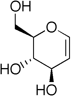 chemical structure of D-glucal